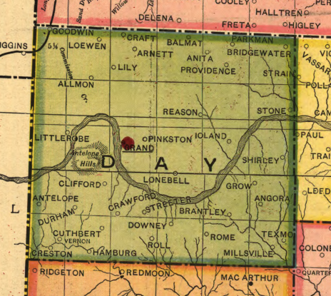 Old Day County, Oklahoma Territory. Detail from 1905 map and is in the public domain.